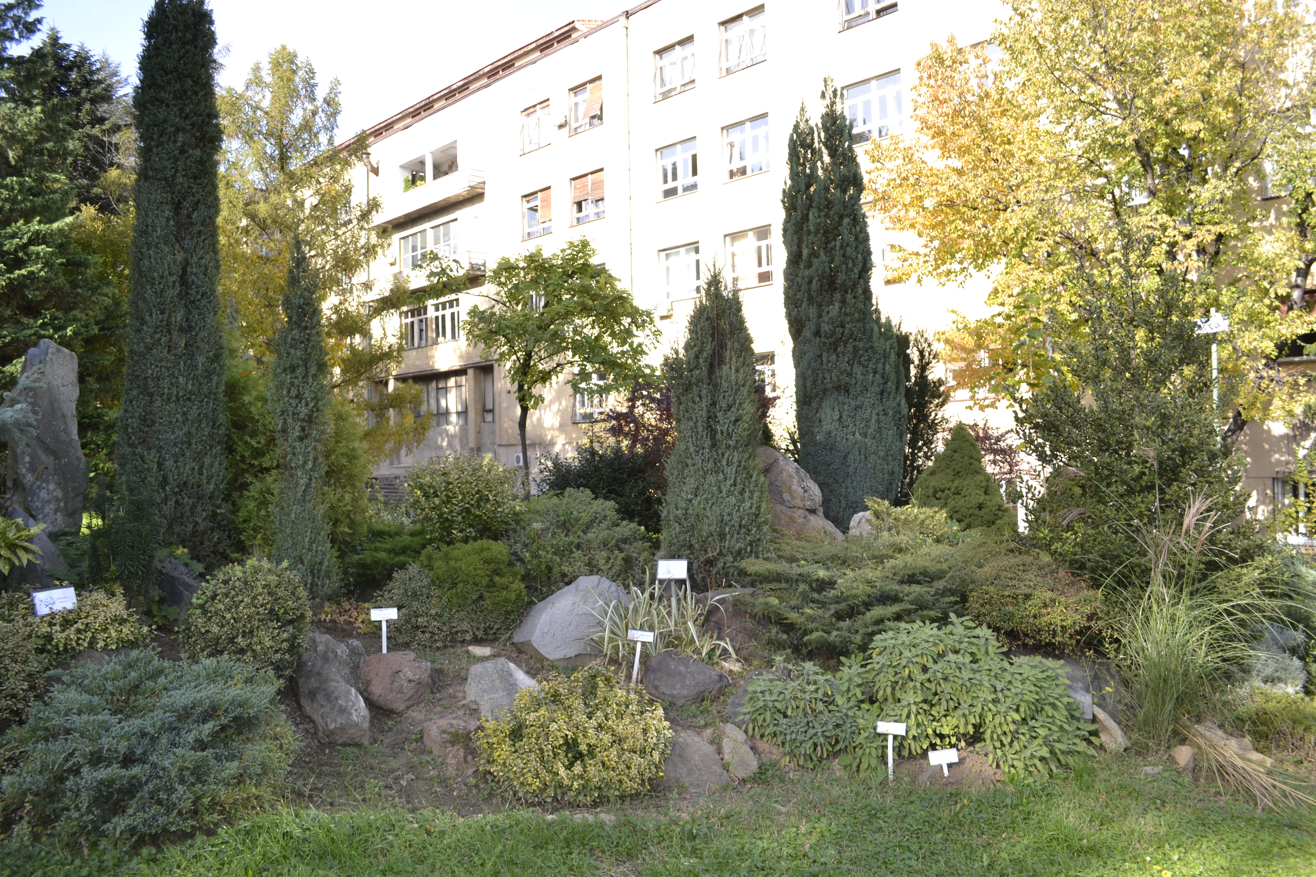 Alpine garden in the arboretum of Faculty of Forestry in Belgrade.